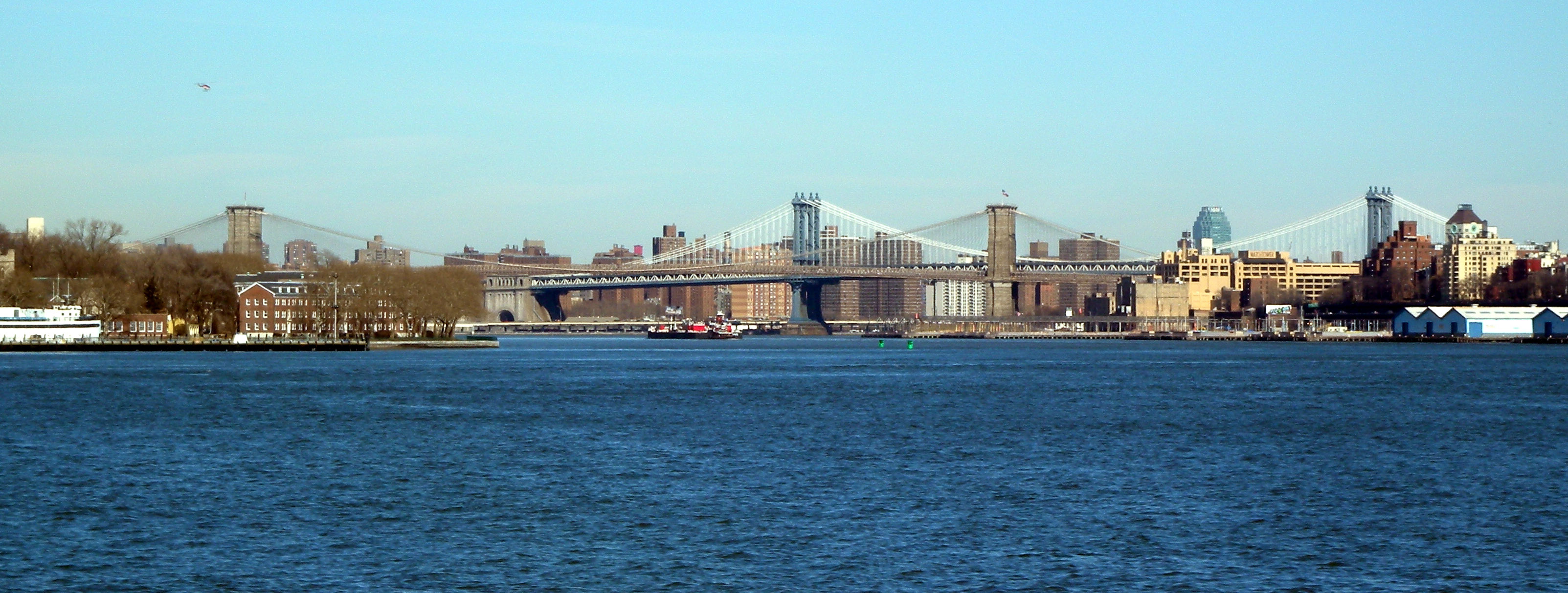 Looking north through Buttermilk Channel from a ferry on a sunny midday. Governors Island is on left, Red Hook on right.